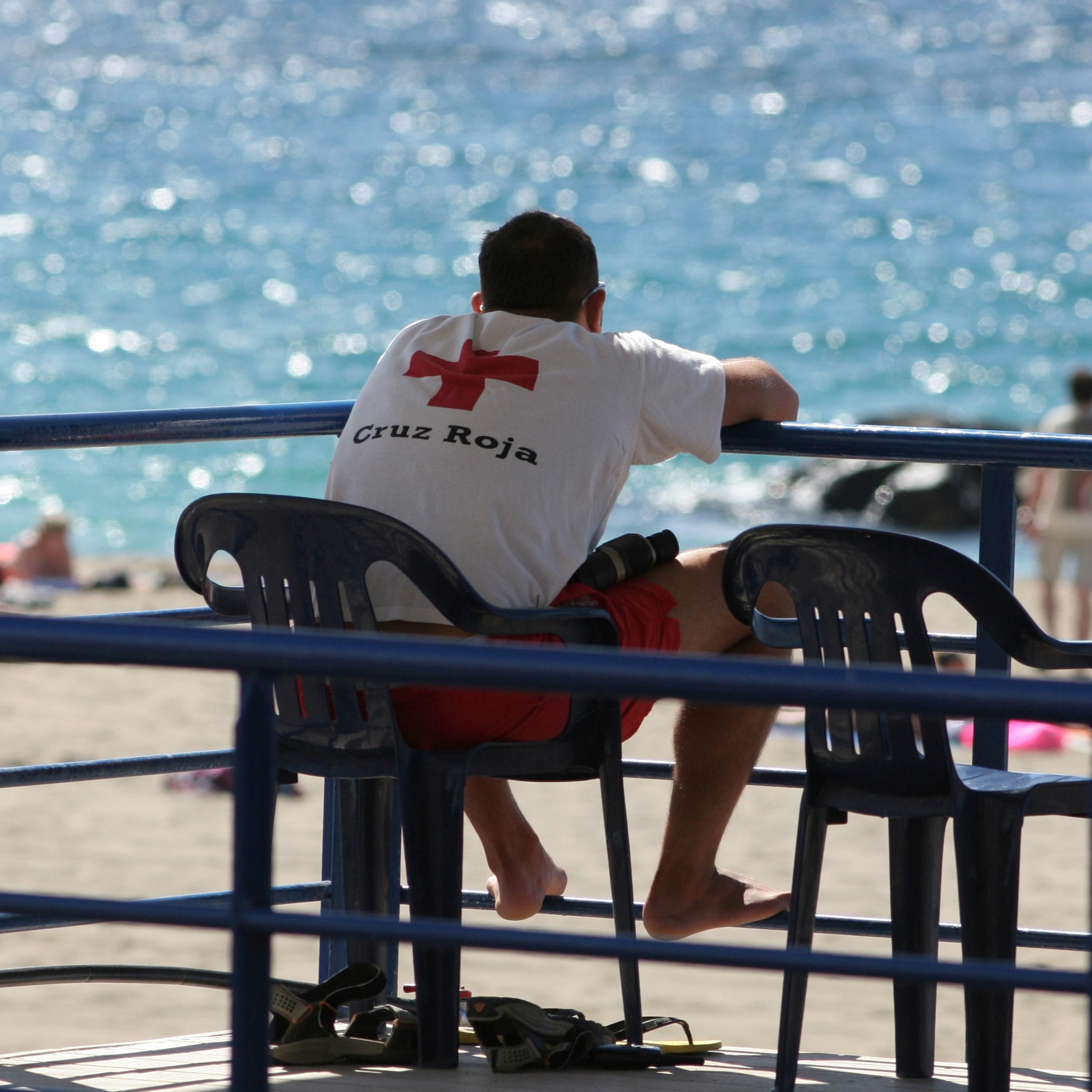 Picture of a lifeguard doing his duties.